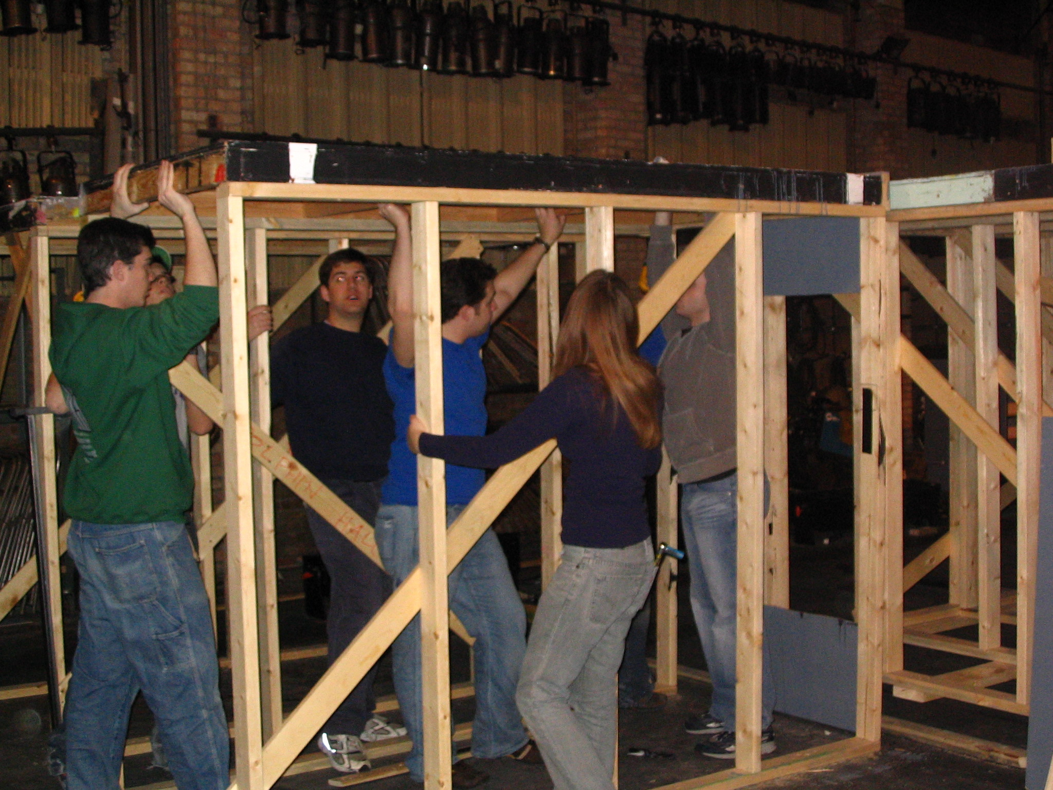 striking H2$ created by me, no copyright